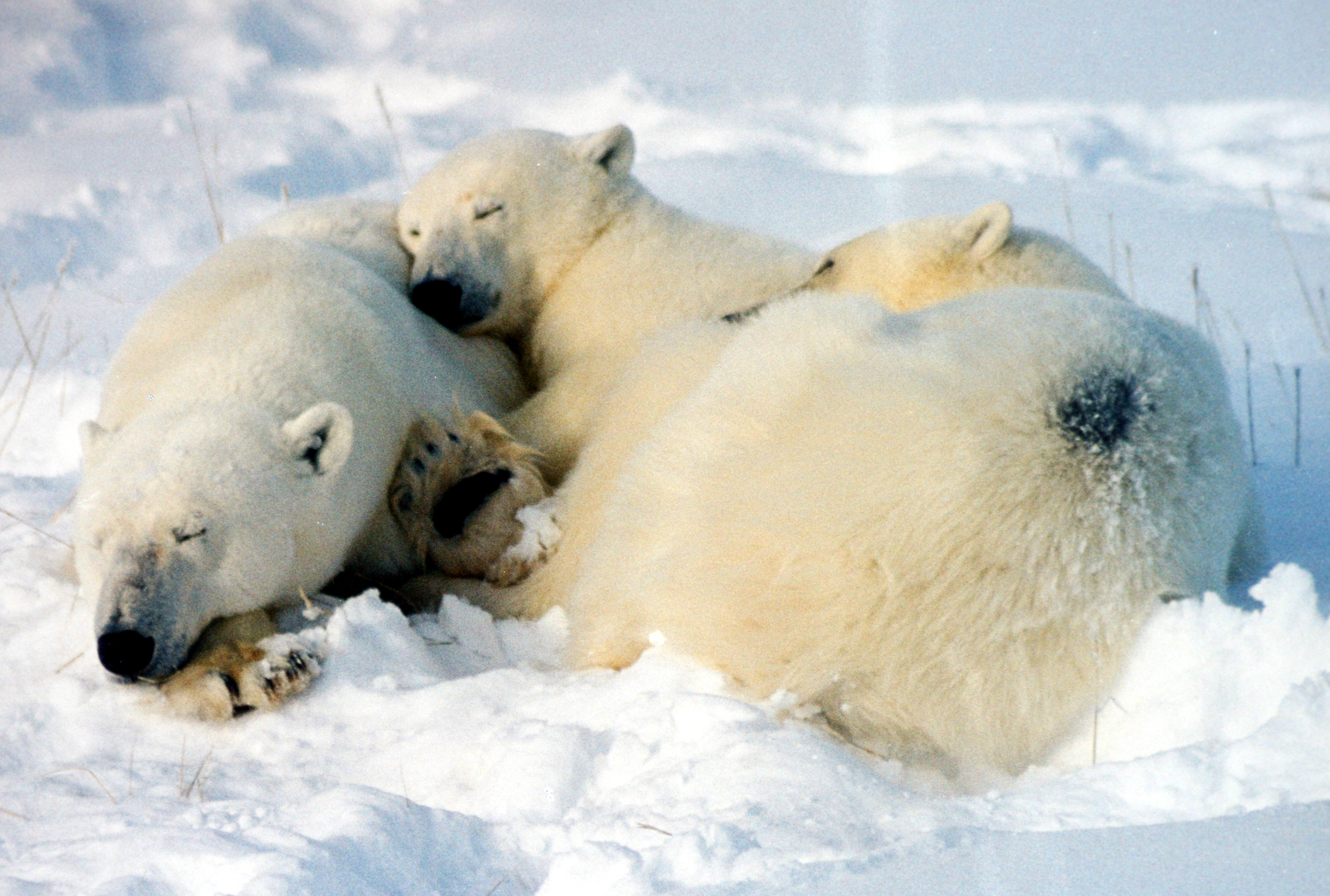 Mother and cubs Polar bears are sleeping in Churchill. Photograped by Brocken Inaglory